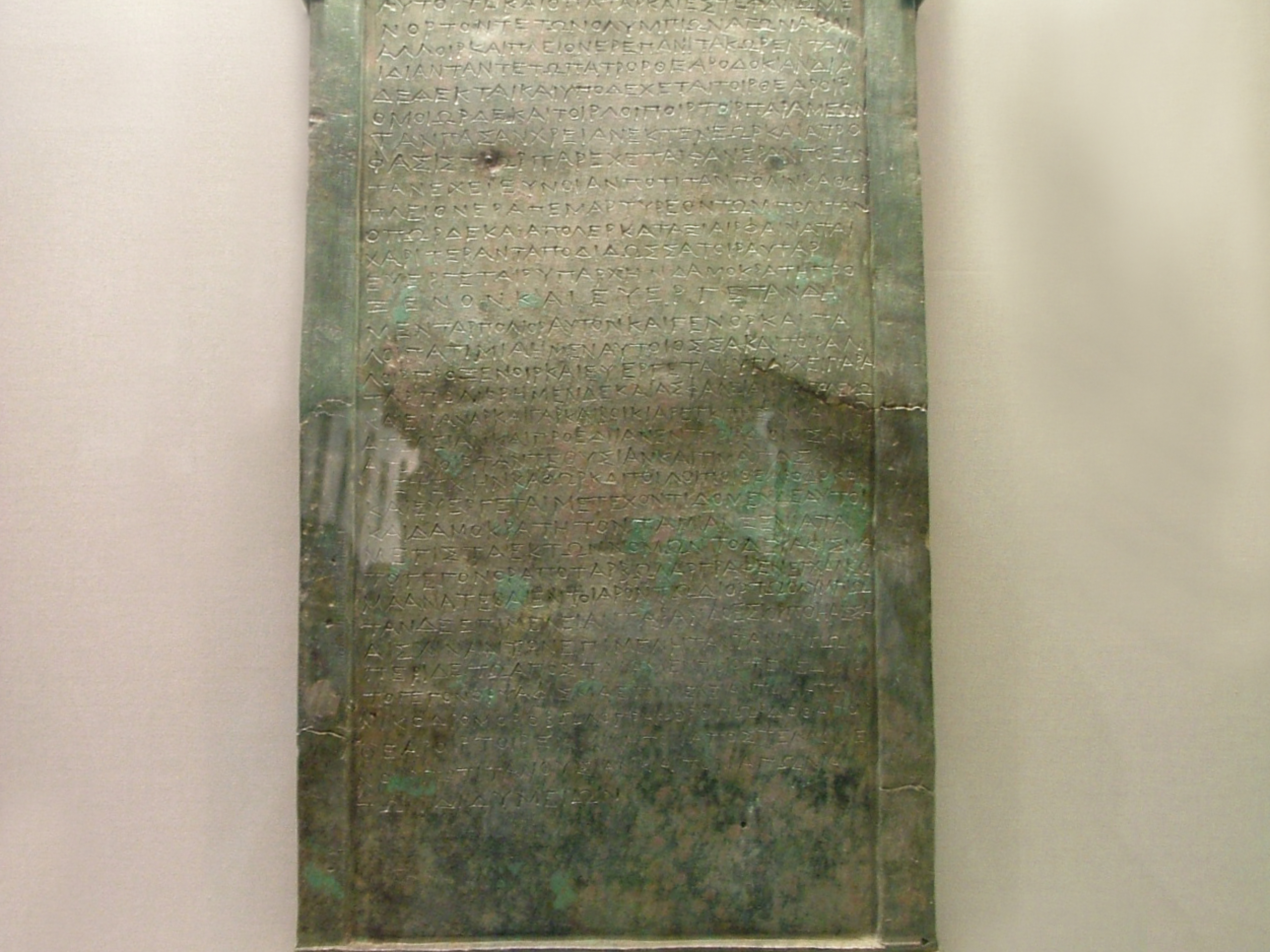 Inscribed tablet with an honorary decree of the Eleians for the Olympic victor Demokrates from the island of Tenedos written in the Eleian dialect. The athlete was winner in the men's wrestling contest at the Olimpic Games. Acording to the text, the decree should be written on a bronze plaque which would be dedicated in the temple of Zeus at Olympia and sent to the victor's compatriots. 300-250 BC. National Archaelogical Museum of Athens, inv. number 6442.